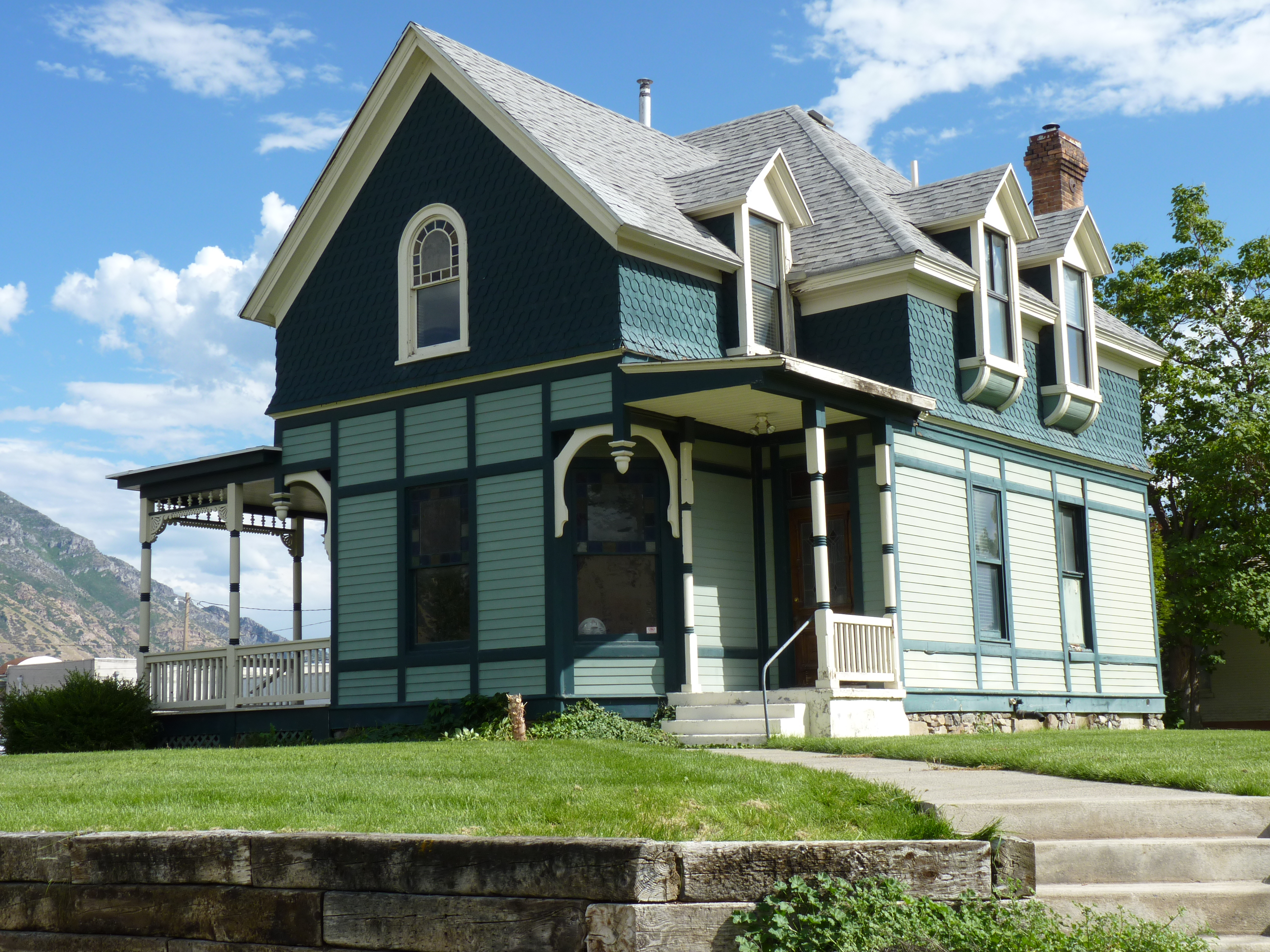 The William D. Alexander House is located at 91 West 200 South and is part of the Historic Landmarks Registry of Provo, Utah. It is also listed on the NRHP.